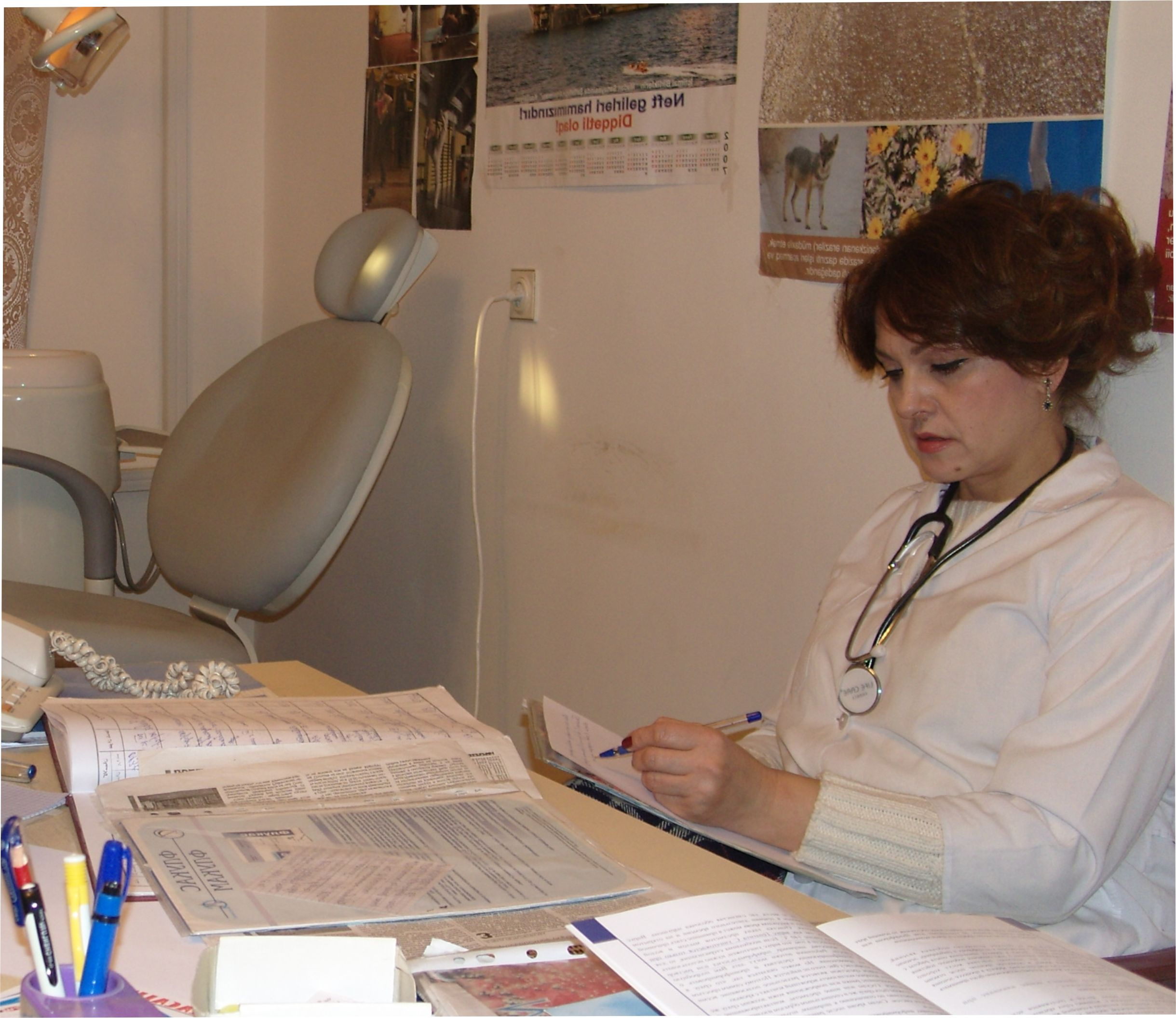 Health Center